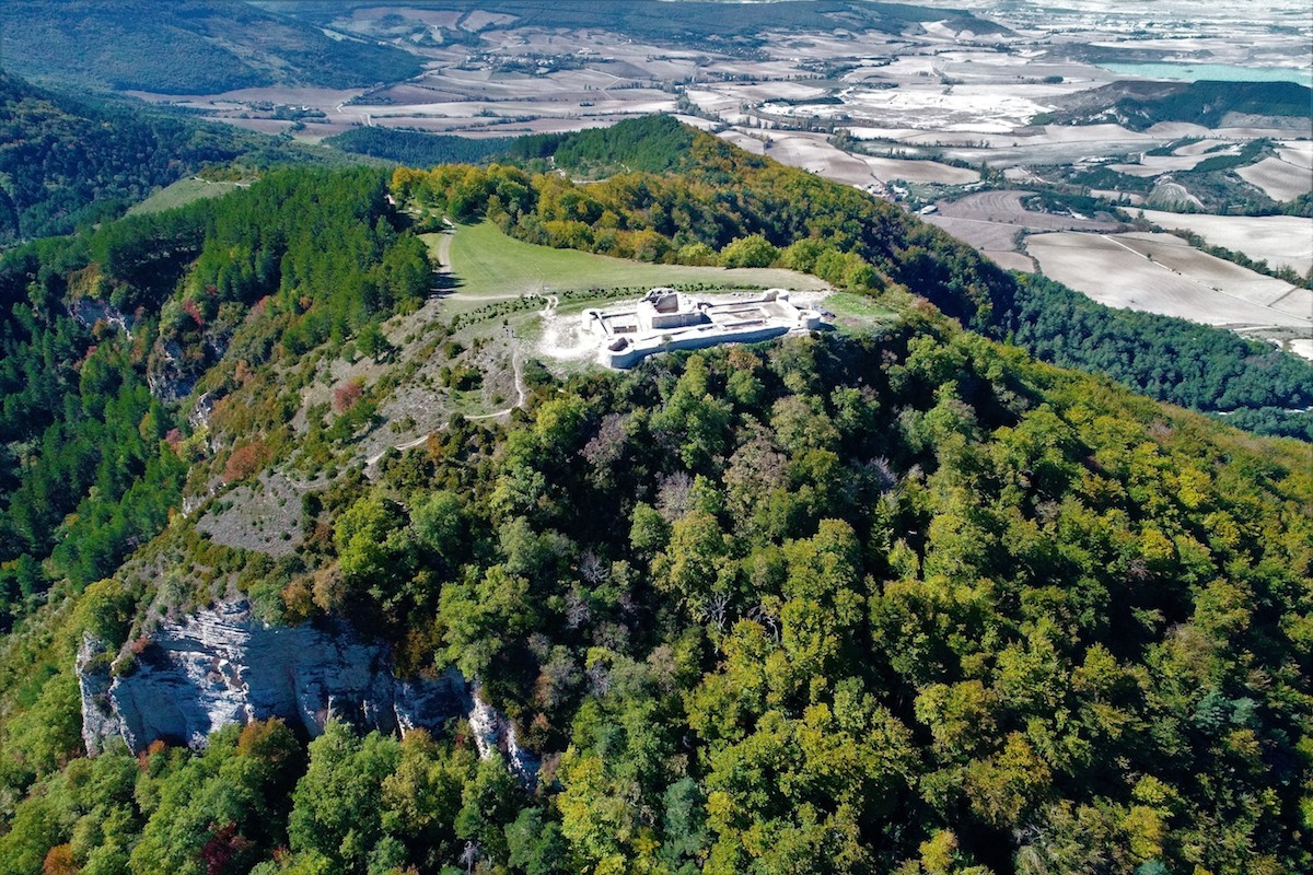 Castle of Irulegi, Navarre